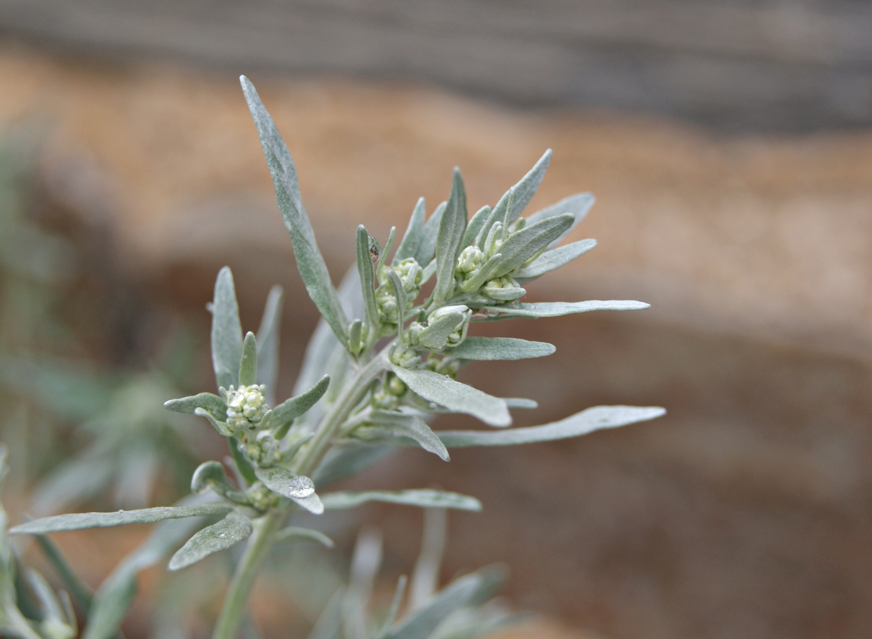 Artemisia absinthium ('Lambrook Silver')